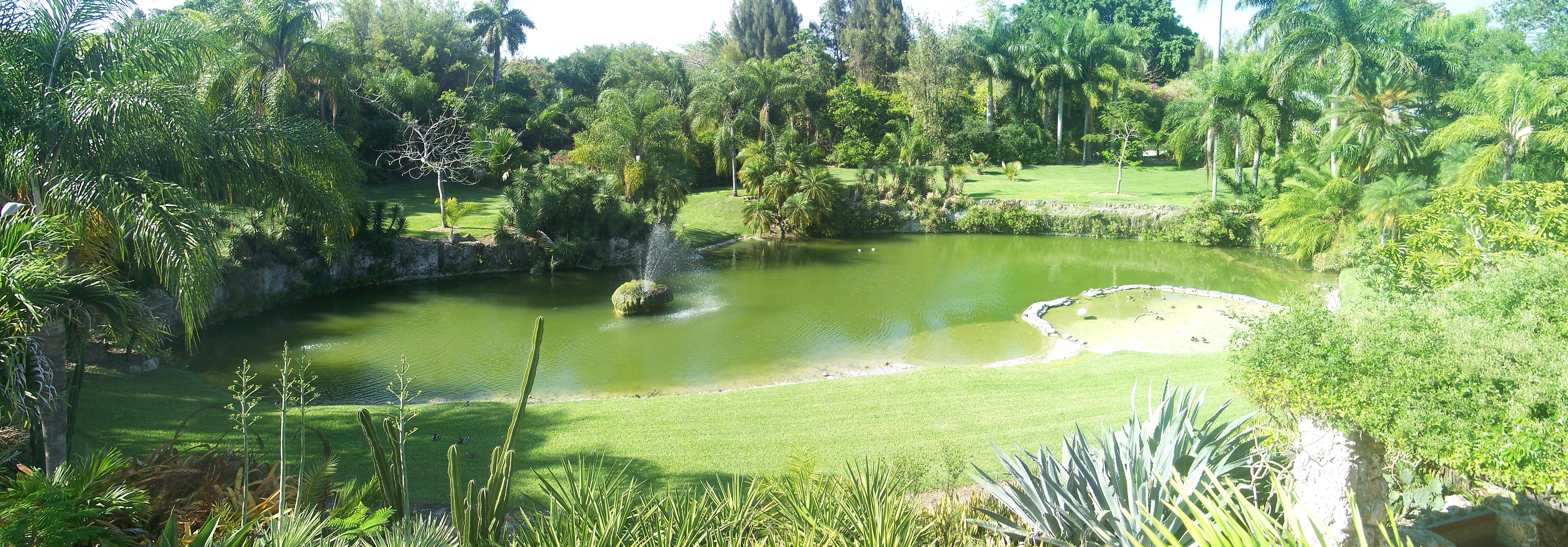 Pinecrest, Florida: Pinecrest Gardens: Pond seen from Lake View Terrace